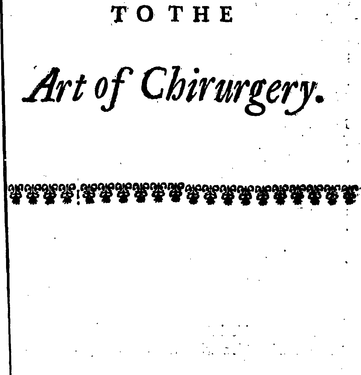 Fleuron from book: Micro-Techne; or, a methodical introduction to the art of chirurgery: in which every branch thereof is handled in a most natural, compendious and perspicuous manner; and constant References are made, under each Head, to the Best Authors who have treated on that Subject more largely. Together with a Critique on the most Eminent Writers in the Art. Written in Latin by Johannes van Horne, Professor of Anatomy and Chirurgery in the University of Leyden. Translated with additions, by Henry Banyer, surgeon.